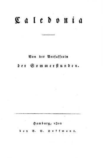 Cover of the book Caledonia by German writer Emilie von Berlepsch.